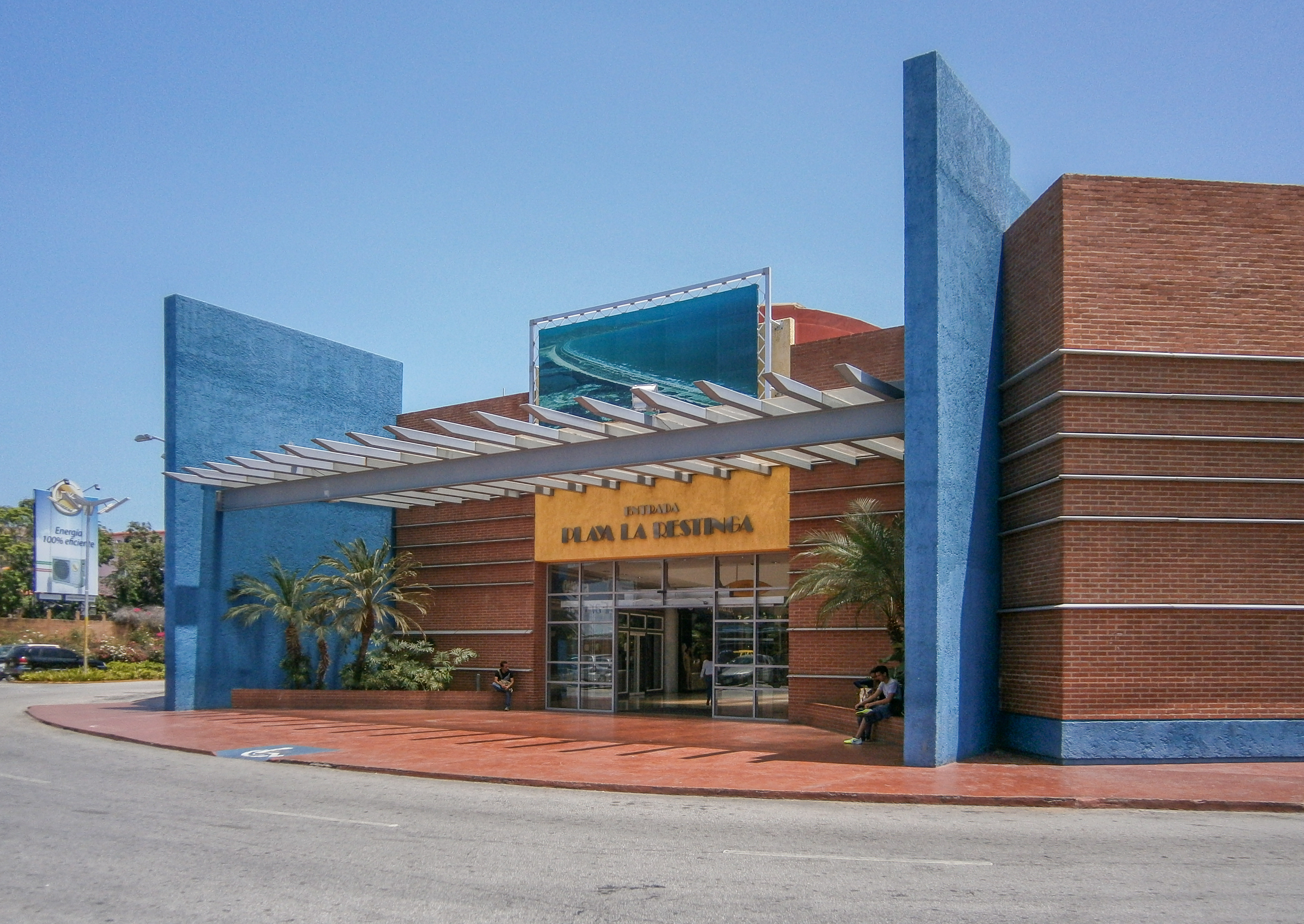 Sambil Margarita